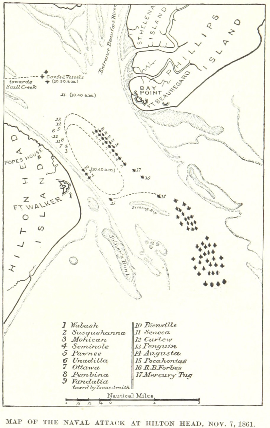 A map of the Union attack during the Battle of Port Royal.